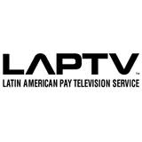 LAP TV